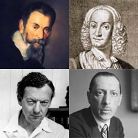 Photo montage of composers. Clockwise- Note this is a re-creation of the WP deleted file. The reason for deletion was the Karsh photo of Britten having an active copyright. In this version, the photo of Britten has been replaced with a PD photo from London Records.